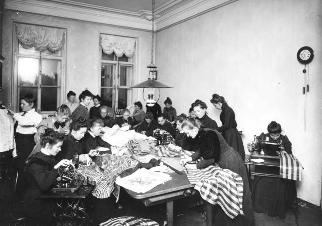 House of Diligence for Educated Women.